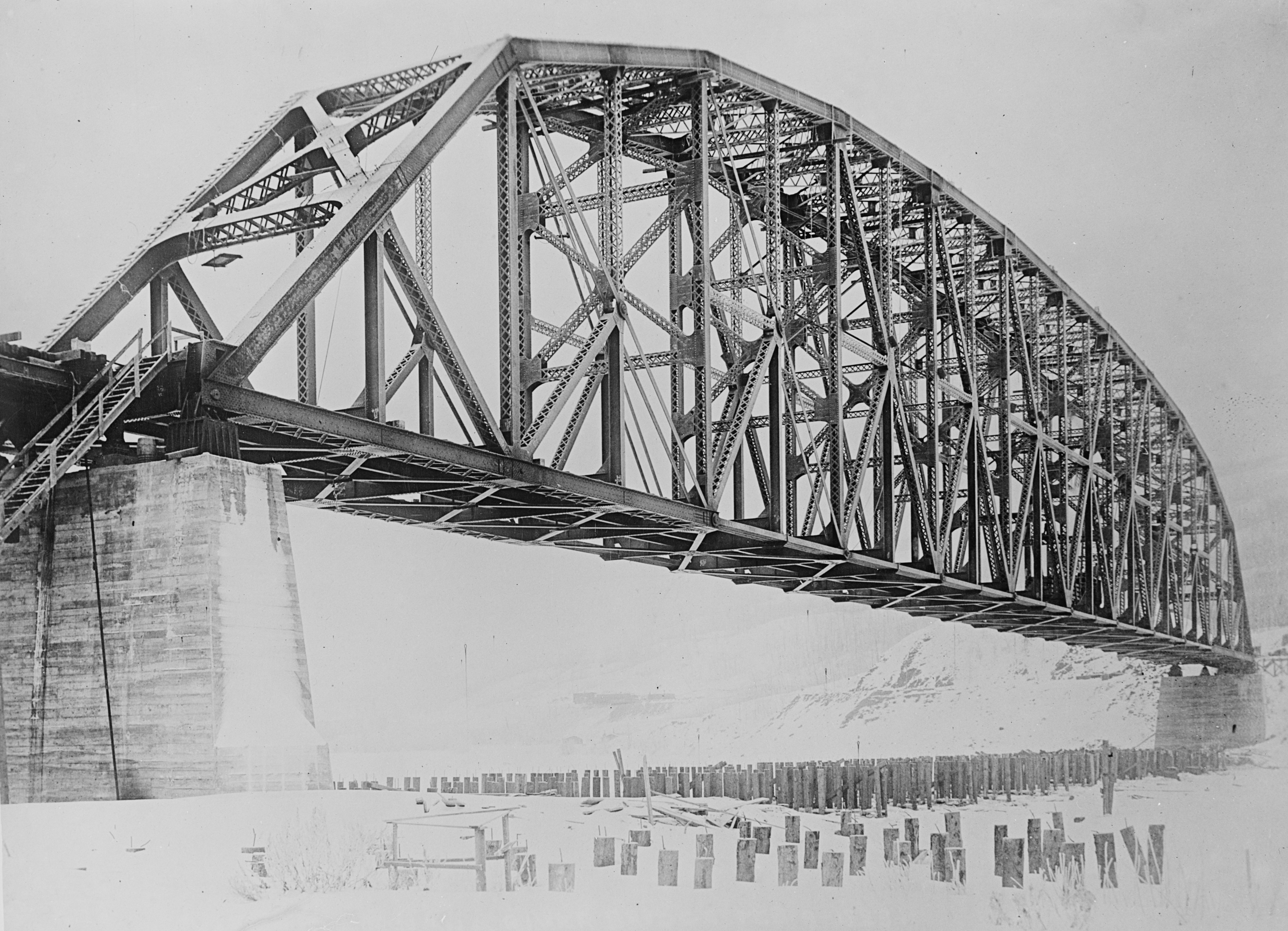 Mears Memorial Bridge over the Tanana River, Nenana, Alaska, USA. Photo taken shortly after bridge completion. Built by the Alaskan Engineering Commission for the Alaska Railroad. Cropped image.